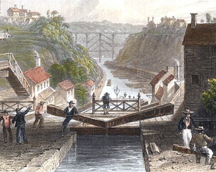 View east of eastbound Lockport on the Erie Canal by W.H. Bartlett, 1839